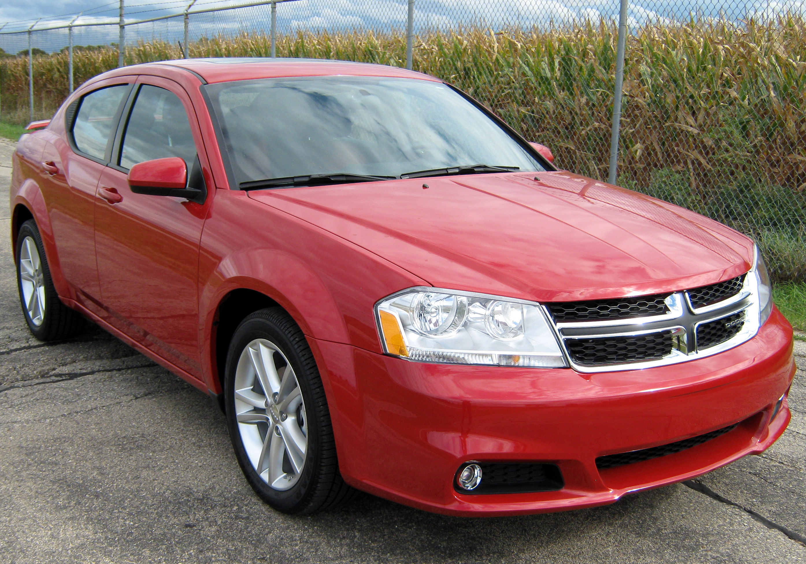 2012 Dodge Avenger photographed in USA.